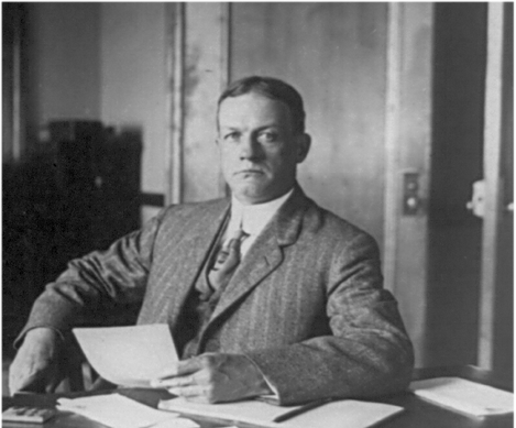 Criminal defense attorney Earl Rogers (1870-1922)